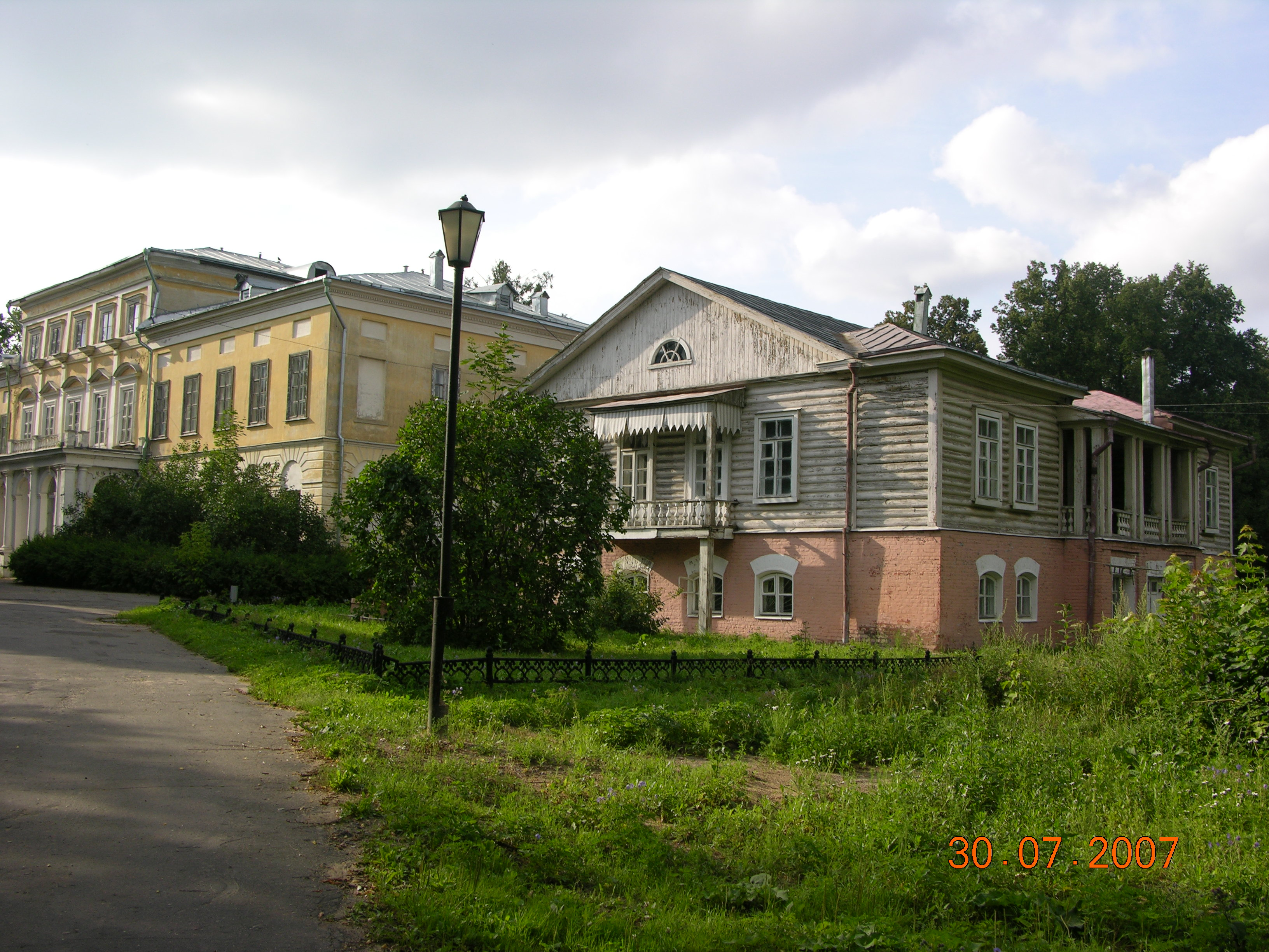 Moscow. Manor Znamenskoye -Sadki .